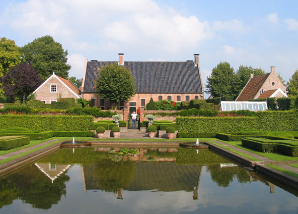 Museum garden Eelde (The Netherlands)